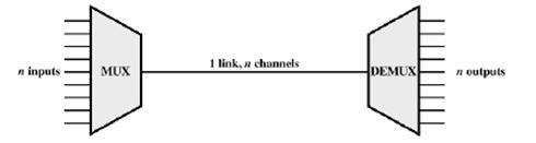 multiplexing